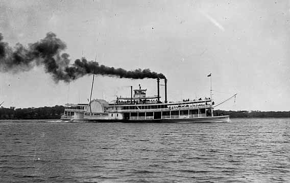 Steamer Belle of Minnetonka, Lake Minnetonka.